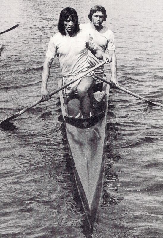 Ivan Patzaichin and Toma Simionov training